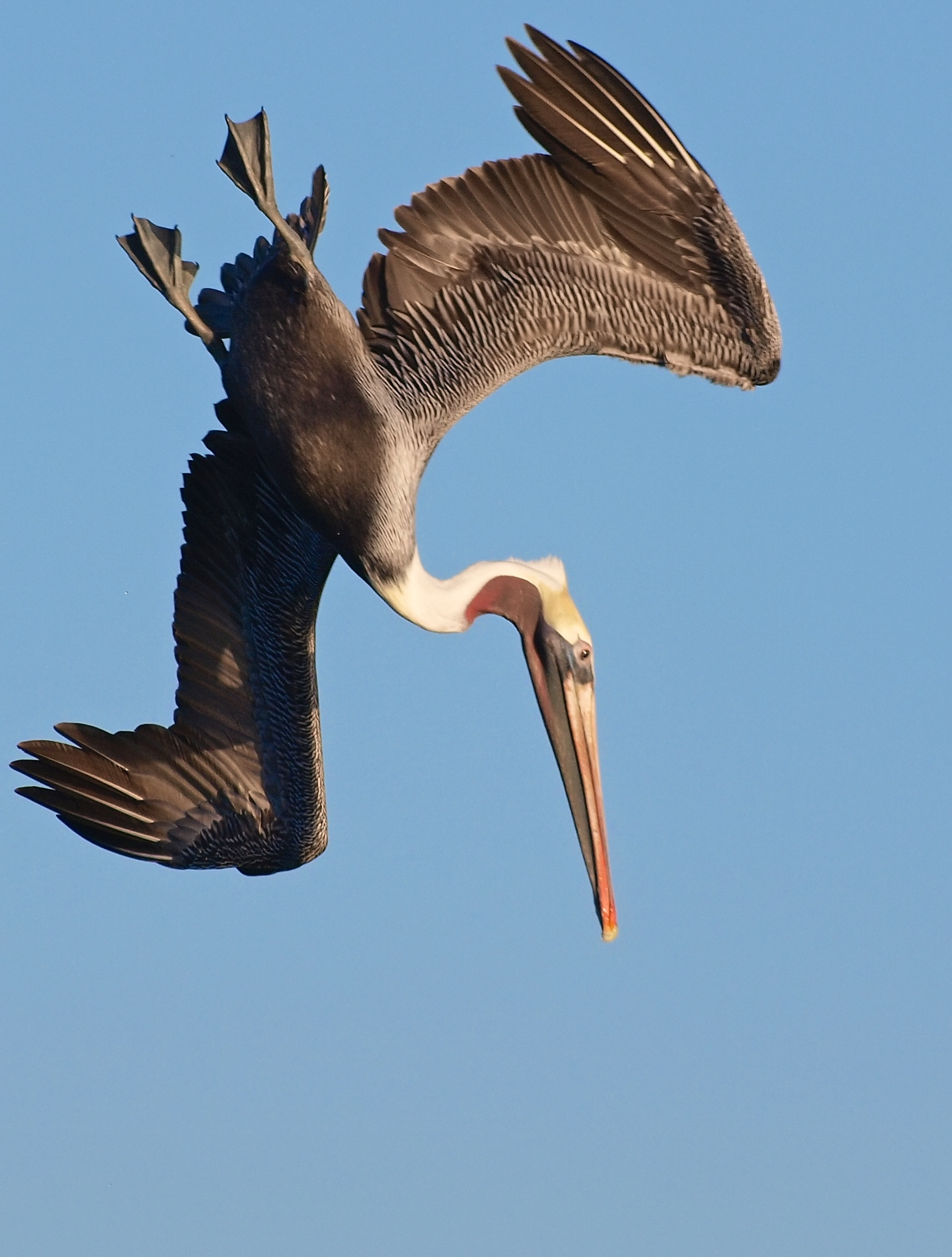 Got the start of the dive, missed on the finish. At Mission Bay in San Francisco.